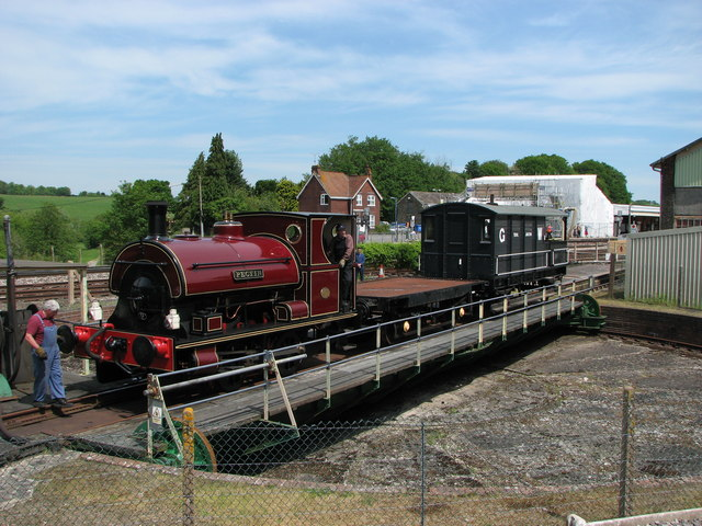 Turntable at Yeovil Junction station Station in background. Taken during refurbishment of the footbridge, hence the polythene cladding.